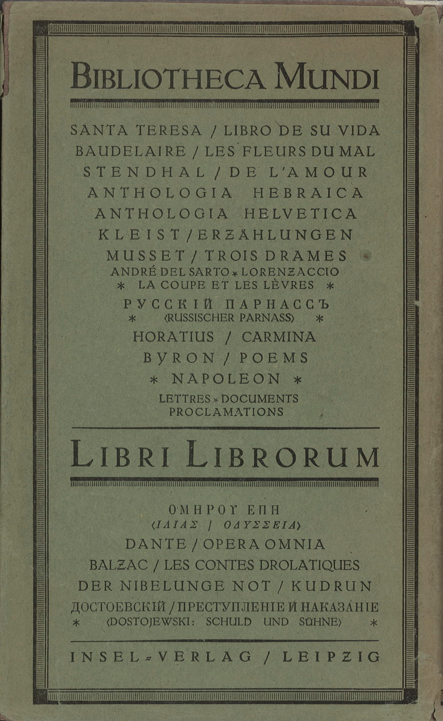 Kleist, Erzählungen, Insel Verlag 1920, Dustwrapper, backside